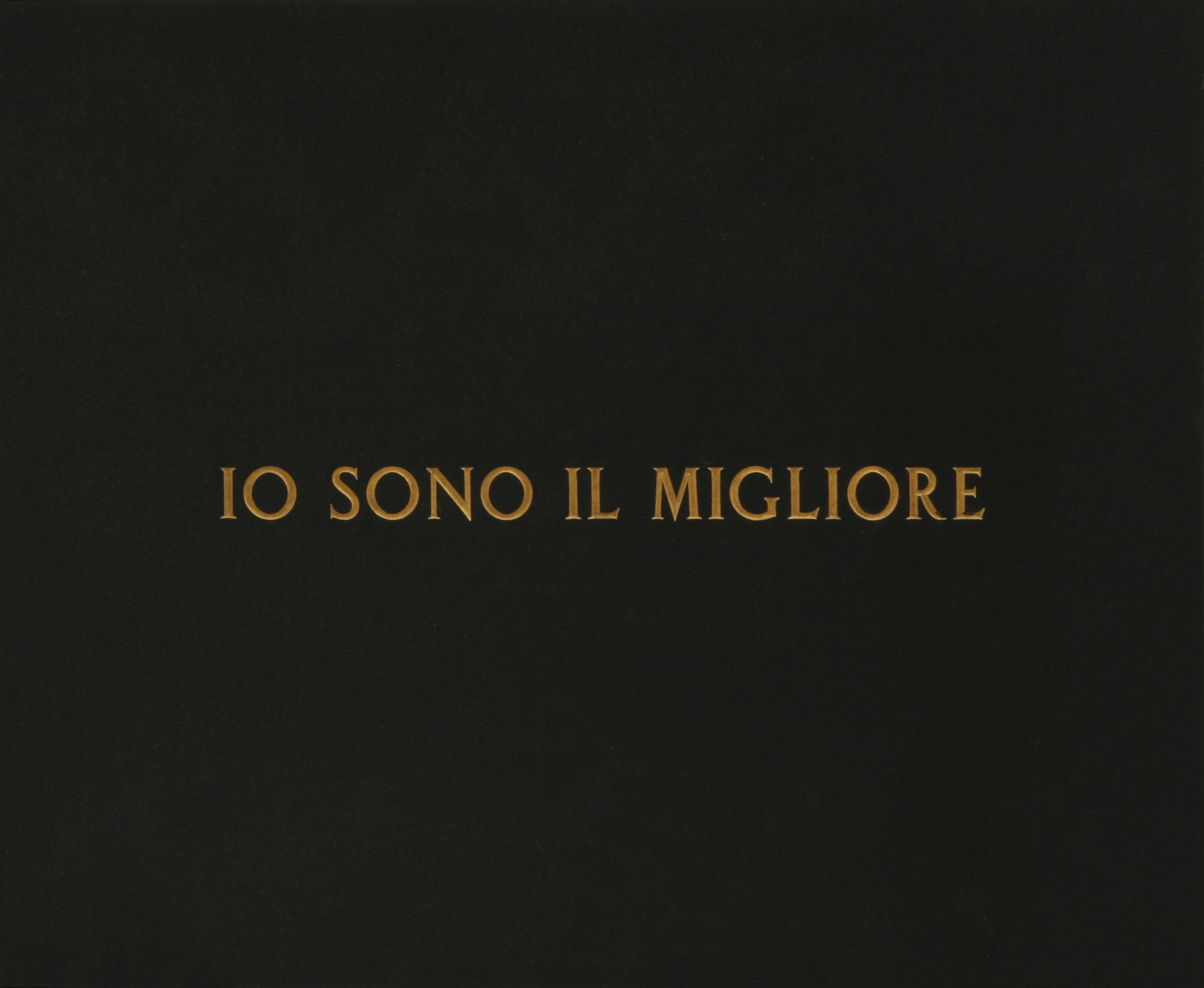 Salvo, Io sono il migliore, 1970, lapide in marmo, 80 x 100 cm